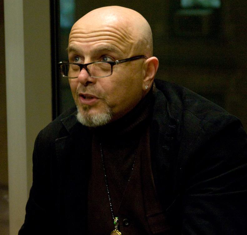 Joe Pantoliano at a Hudson Union Society event in February 2009.